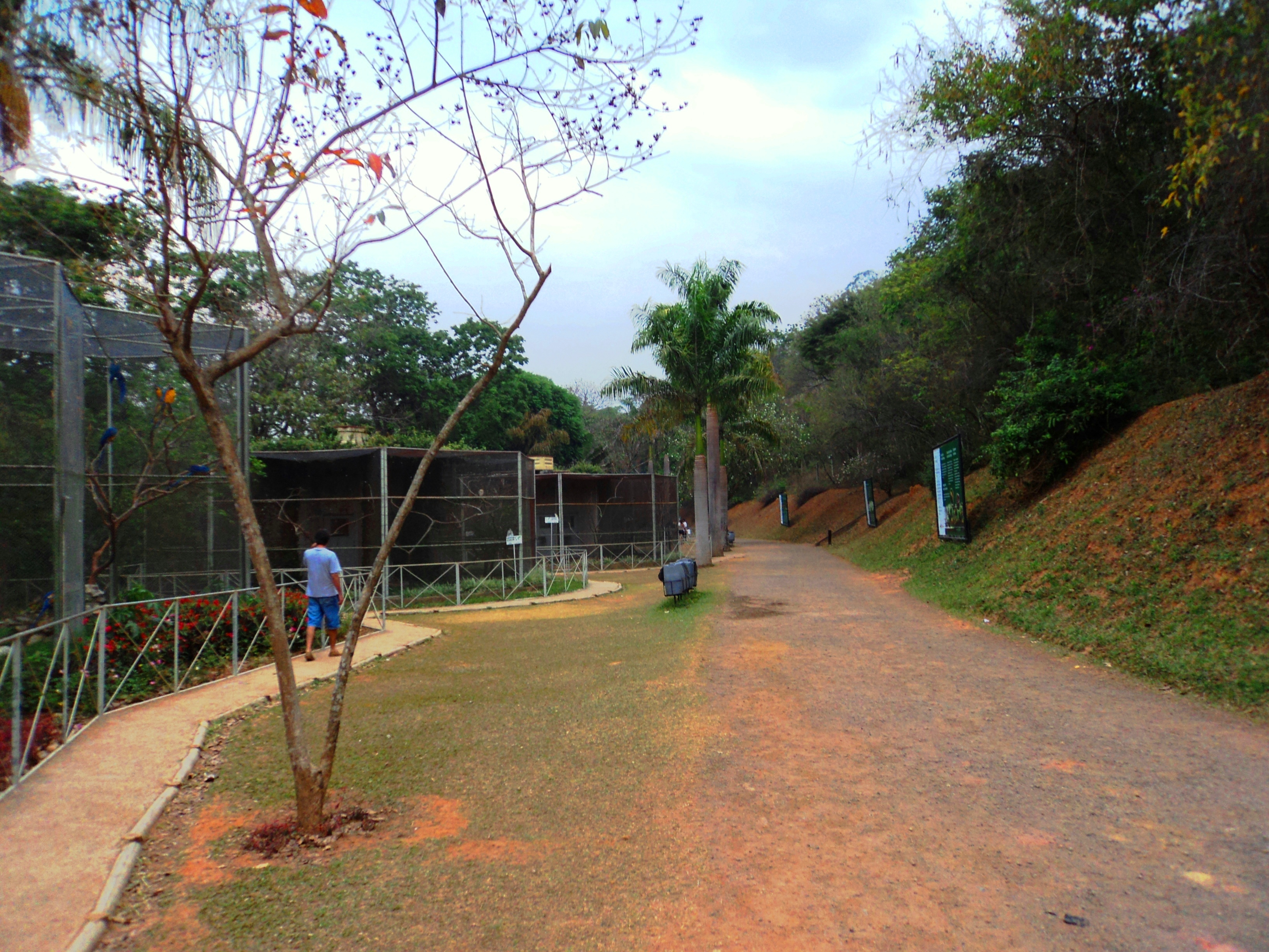 Usipa Aviary, in Ipatinga, Minas Gerais, Brazil.